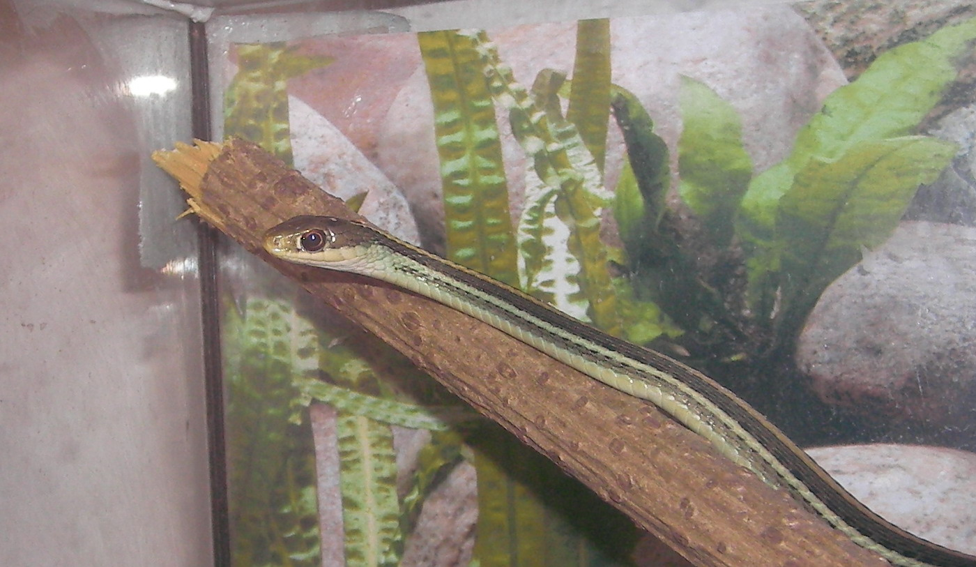 Thamnophis sauritus